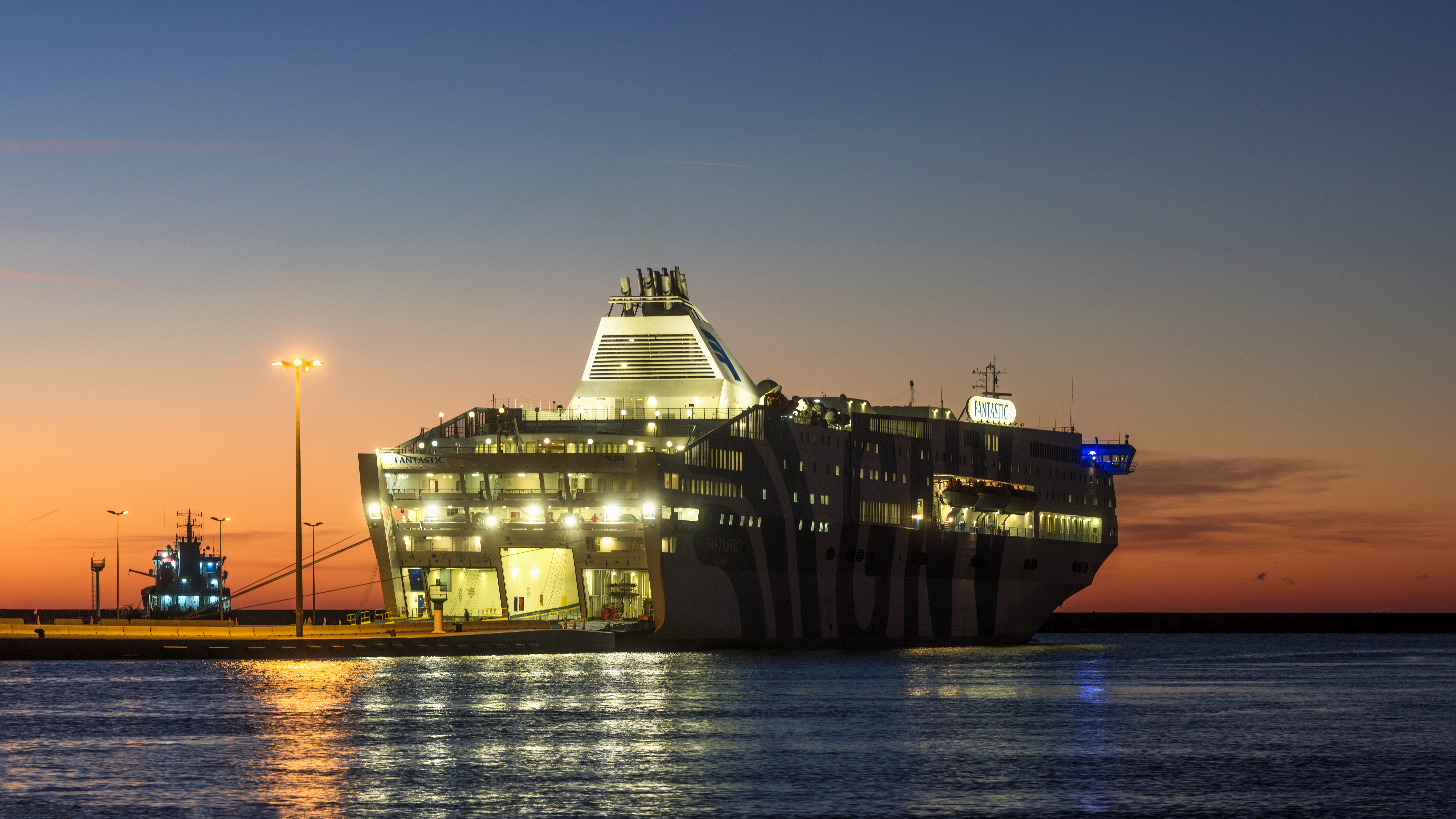 Fantastic (ship, 1996) in the harbour of Sète - Hérault, France